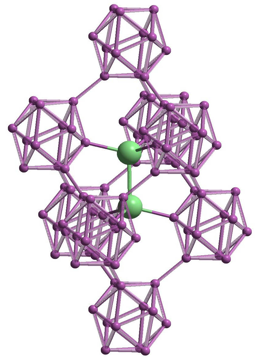 3D visualization of B12As2 unit cell